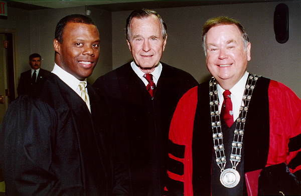 J.C., President George Bush, and OU President David Boren at the 1997 University of Oklahoma Commencement Ceremony